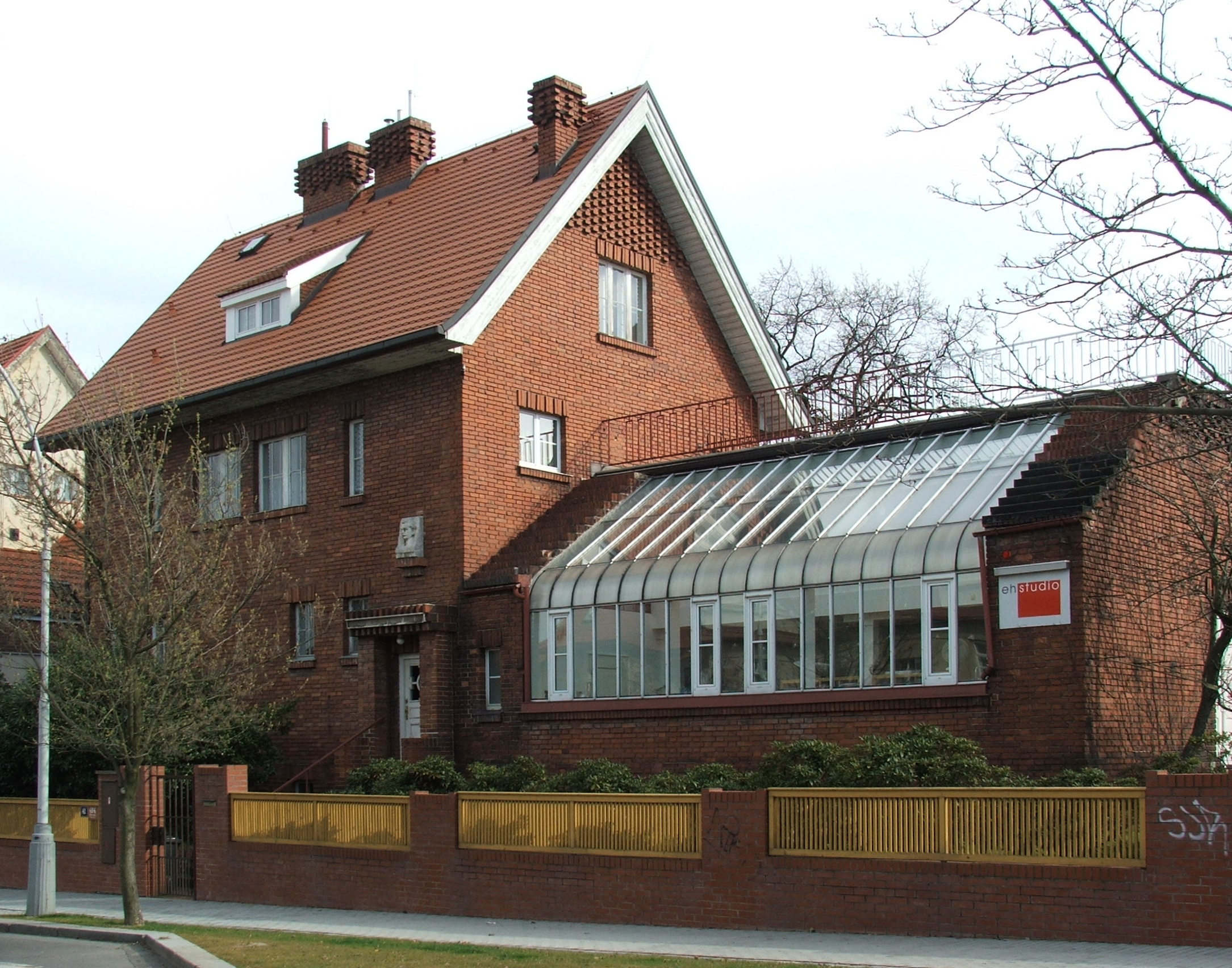 Villa in Prague(1923-24) - Střešovice, Czechia, Na Ořechovce street, by architect Pavel Janák.